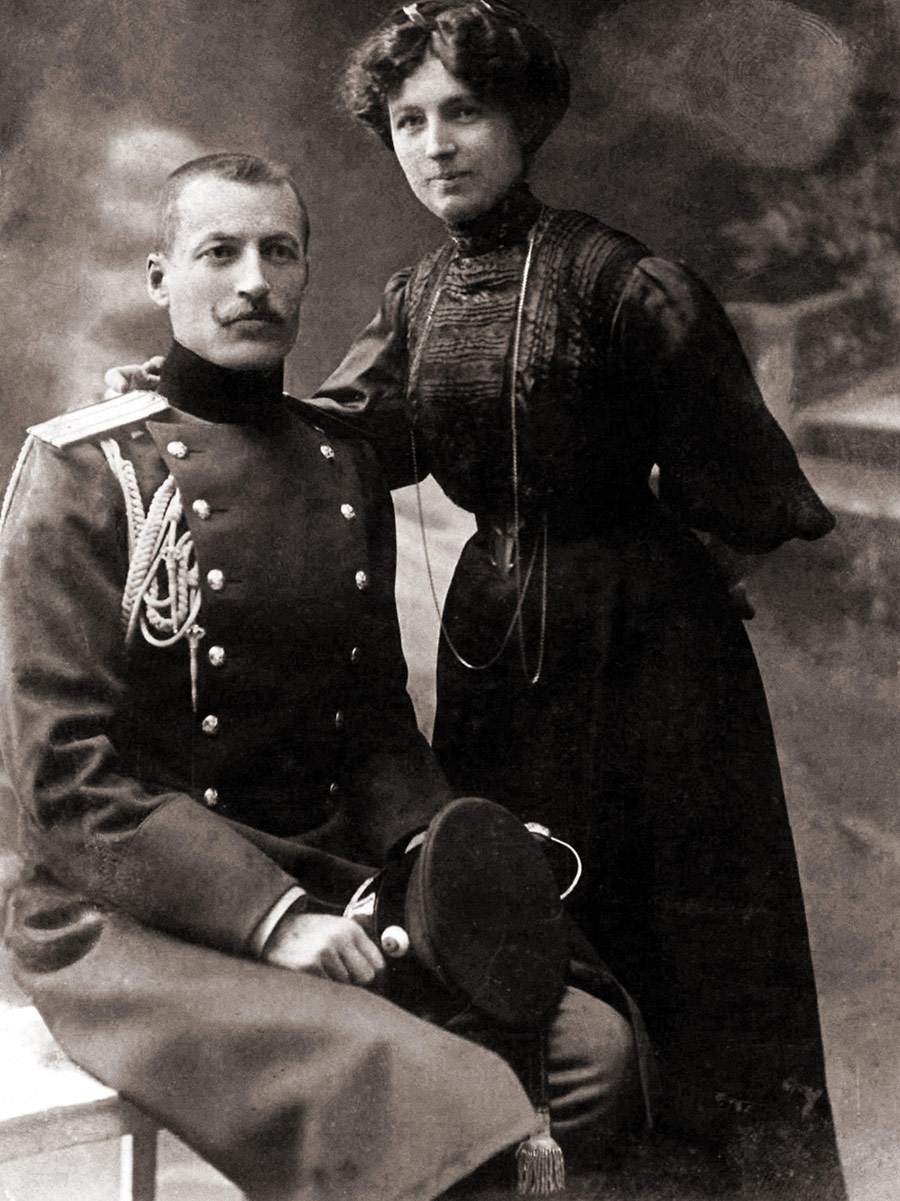 Boris Drangov and Rayna Drangova Sofia 1907